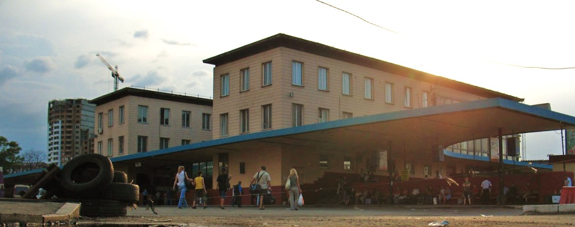 Kiev Central Bus Station in Kyiv